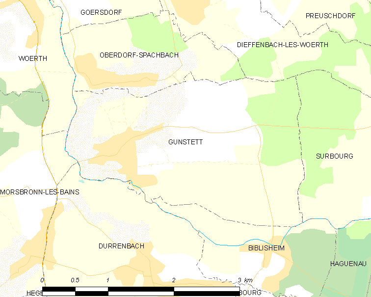 Map of French municipality